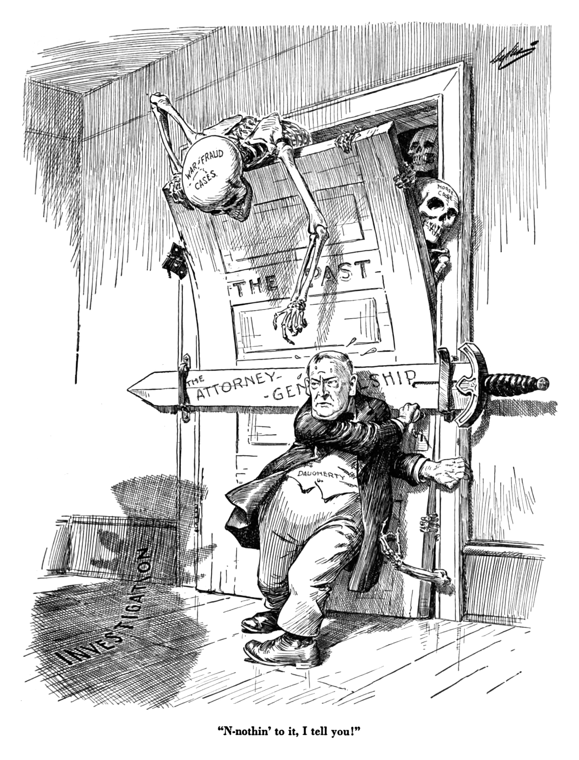 "N-nothin to it, I tell you!" Cartoon depicting the controversies of Harry M. Daugherty